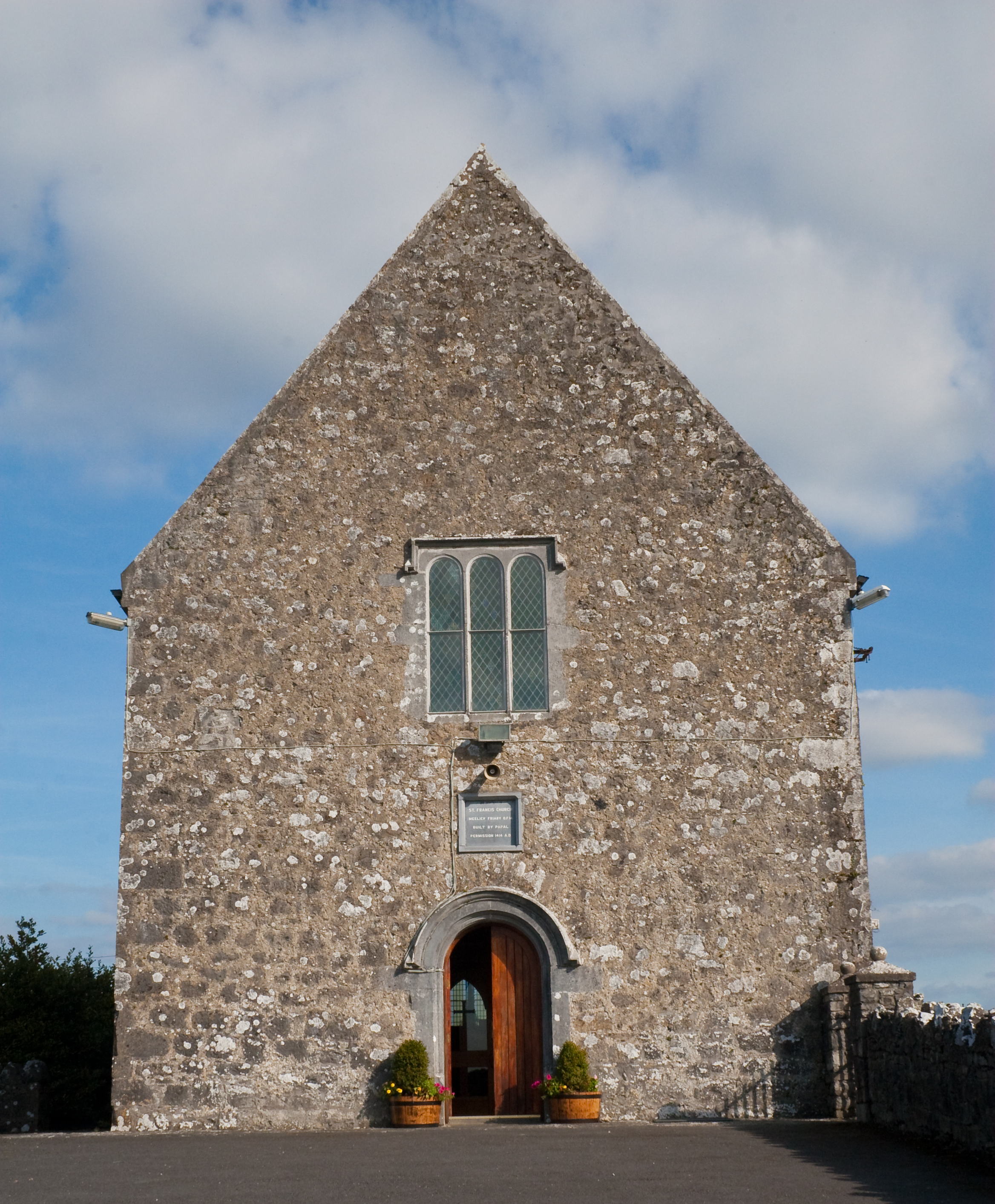 Meelick Friary, County Galway, Ireland West entrance to the nave.